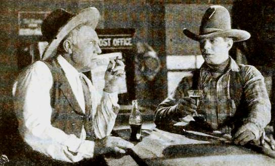 Still from the American western film The Bearcat (1922) with Charles K. French and Hoot Gibson, on page 62 of the June 1922 Photoplay Magazine.